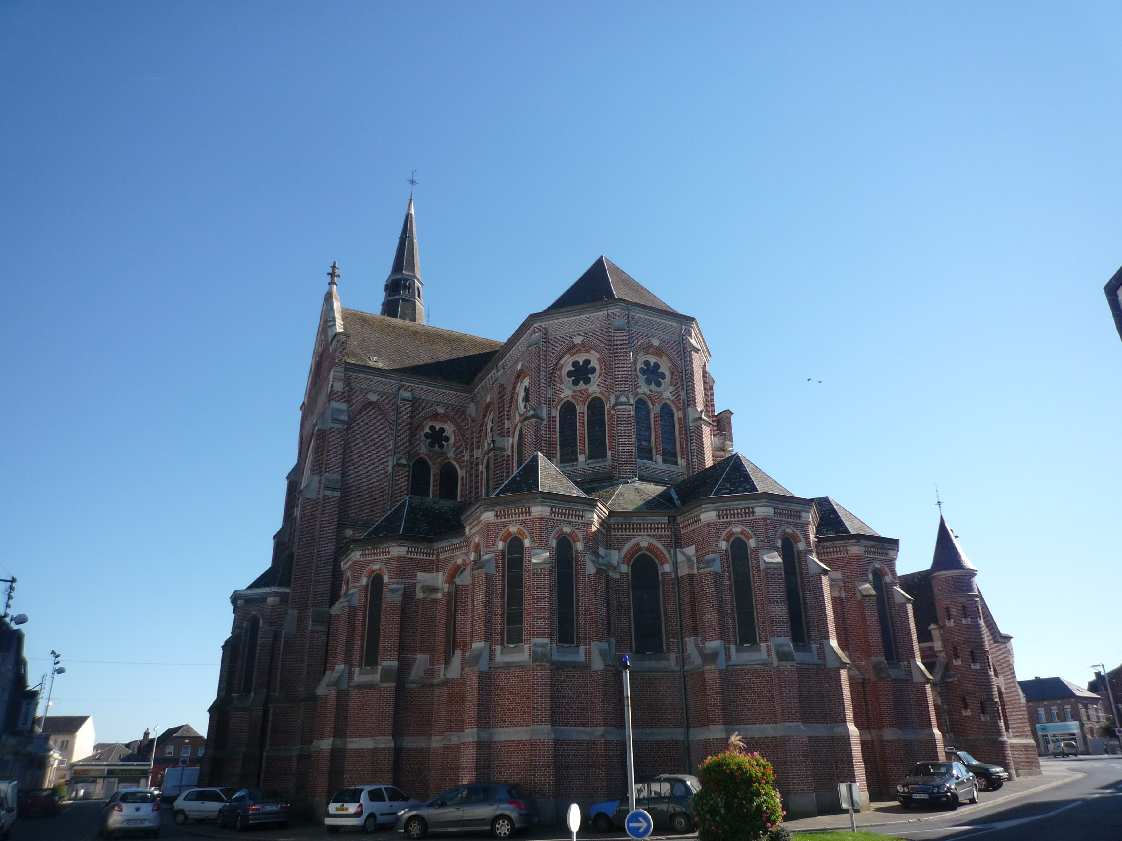 Basilique Sainte-Maxellende, Caudry, Nord-Pas-de-Calais, France.